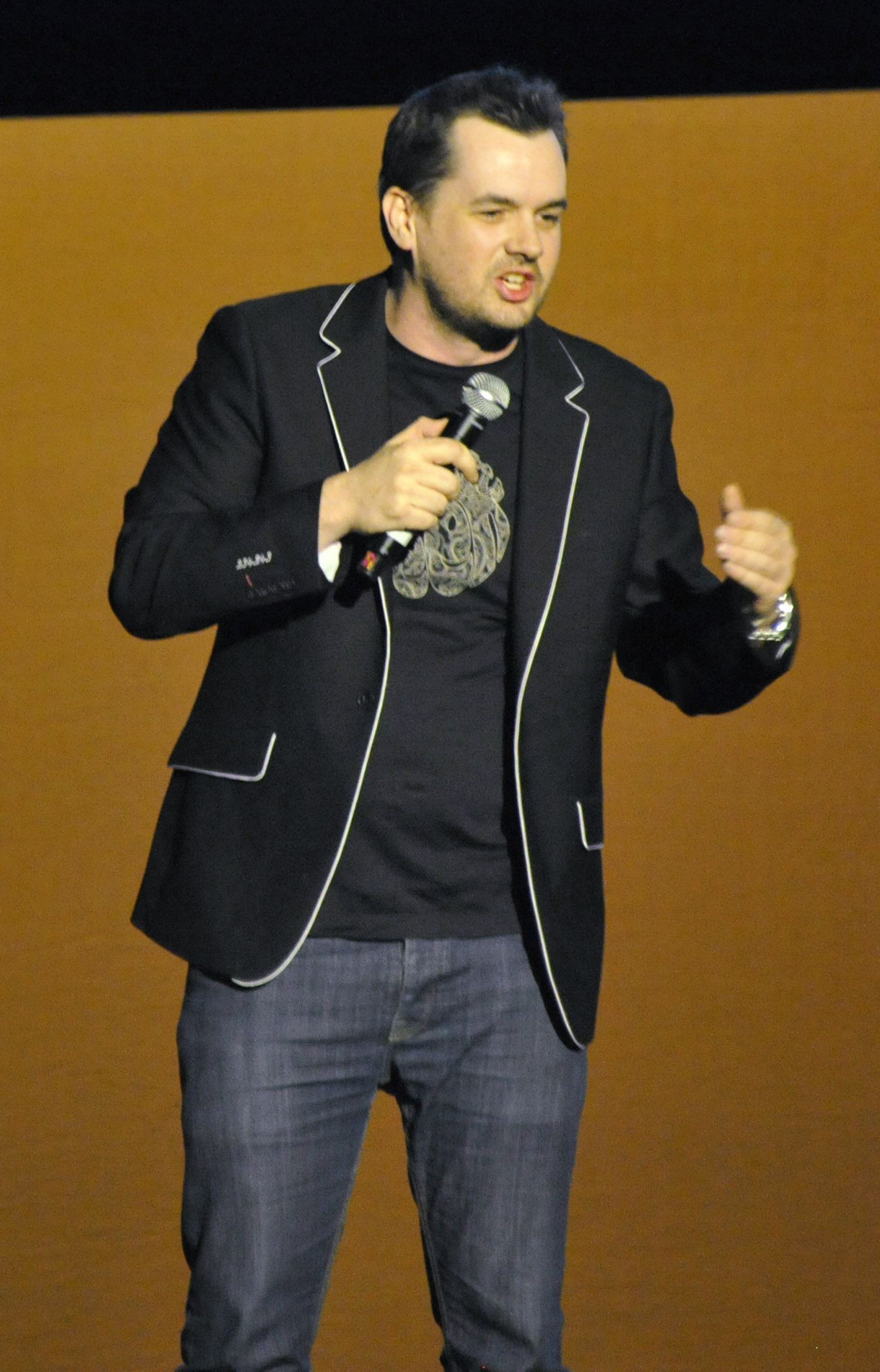 Jim Jeffries performing at Global Atheist Convention in Melbourne, Australia on 13 April 2012.